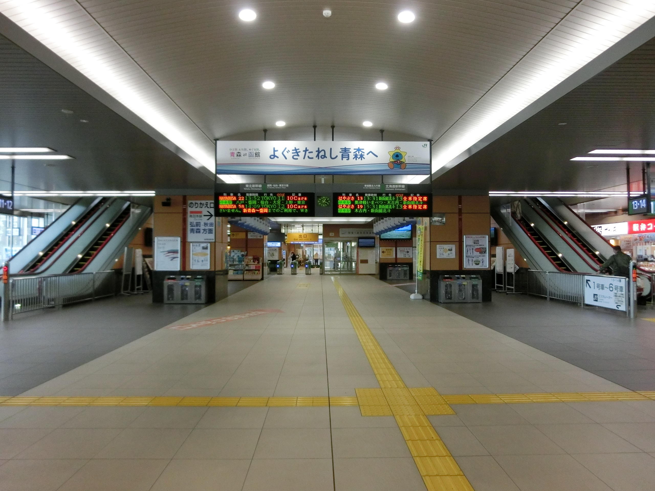 Shin-Aomori Station interior